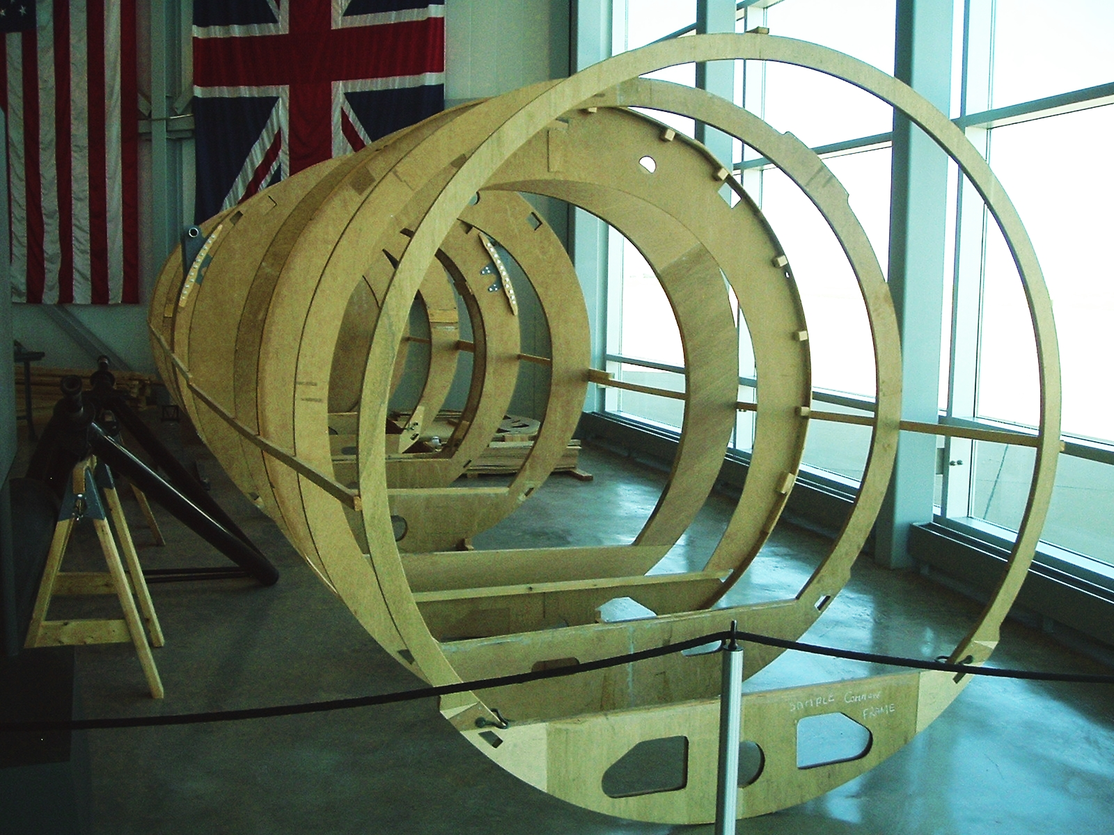 Airspeed Horsa framwork at the Silent Wings Musuem in Lubbock,TX.